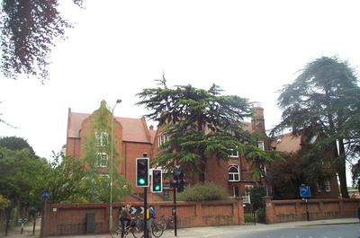 Linacre College, Oxford, on St Cross Road, Oxford, England. 2004-05-07. Copyright © Kaihsu Tai.